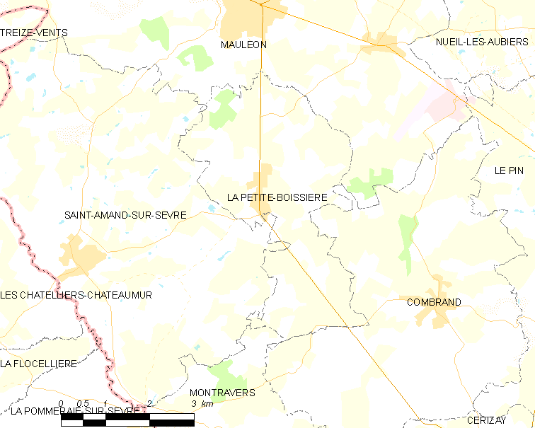 Map of French municipality La Petite-Boissière